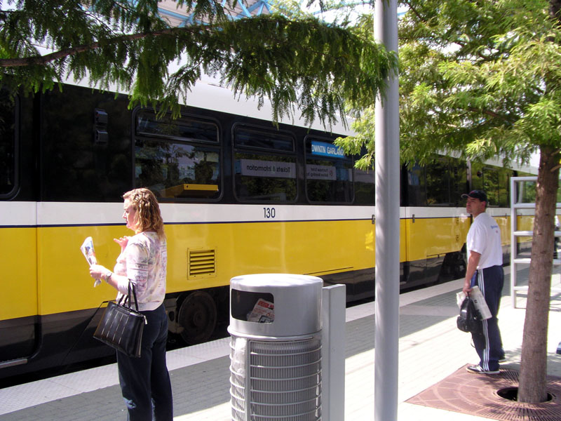 Passengers at DART's White Rock Station in north Dallas, Texas (USA)